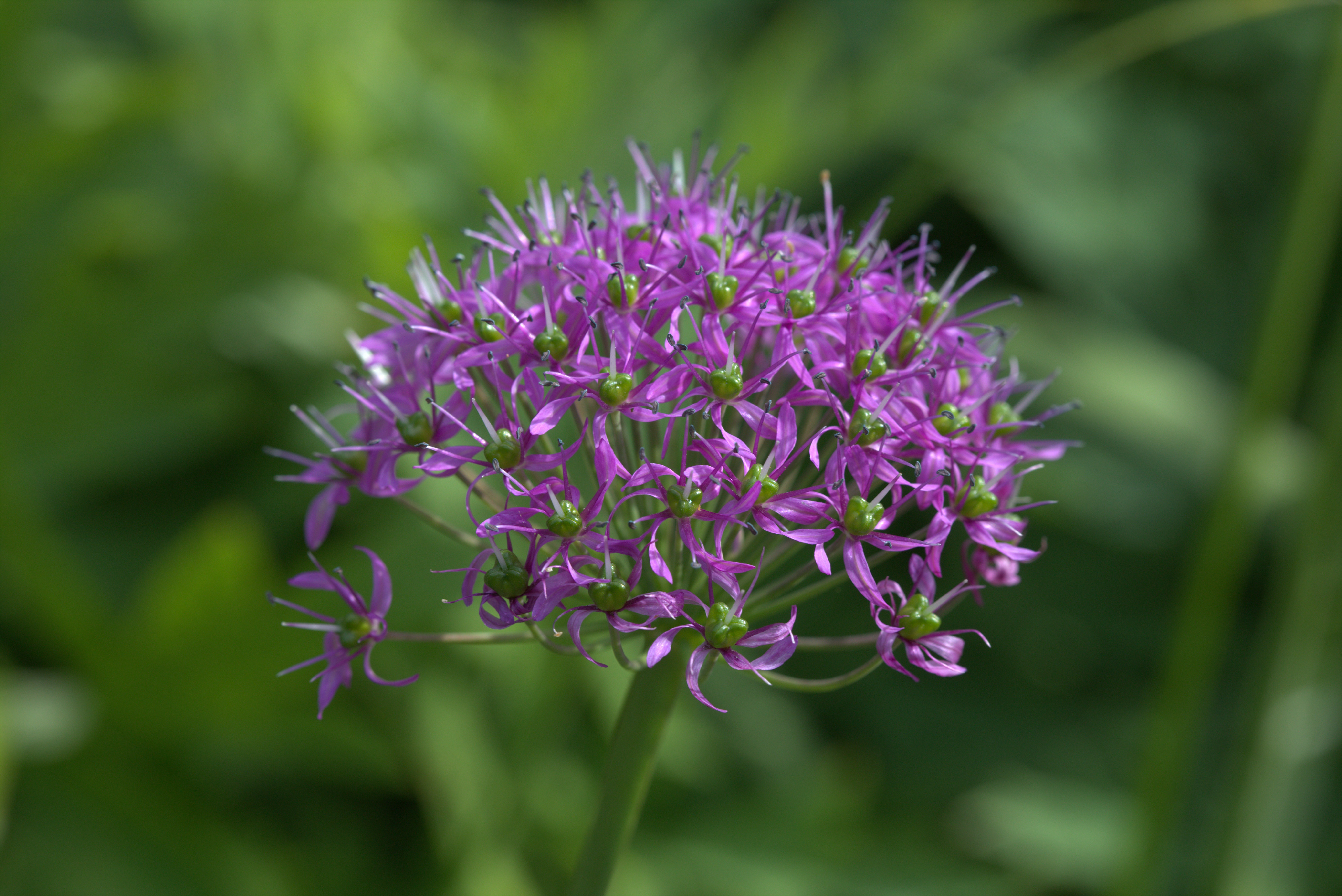 Allium wallichii in Gothenburg Botanical Garden. Plant id: 1993-0934 s Z -- Drake (CLD 1500)